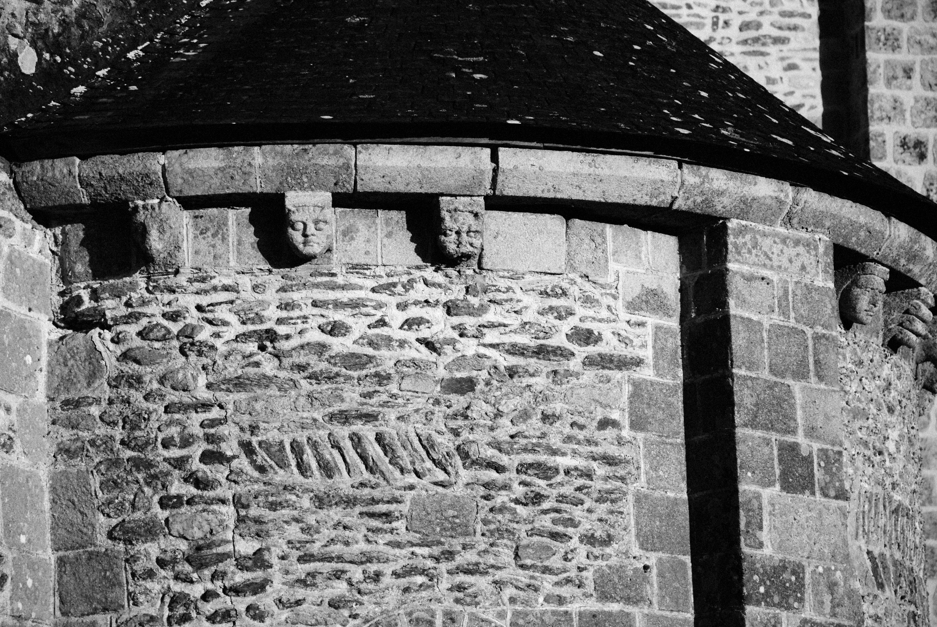 Saint-Gildas-de-Rhuys: corbels of the abbey-church (Morbihan, France)